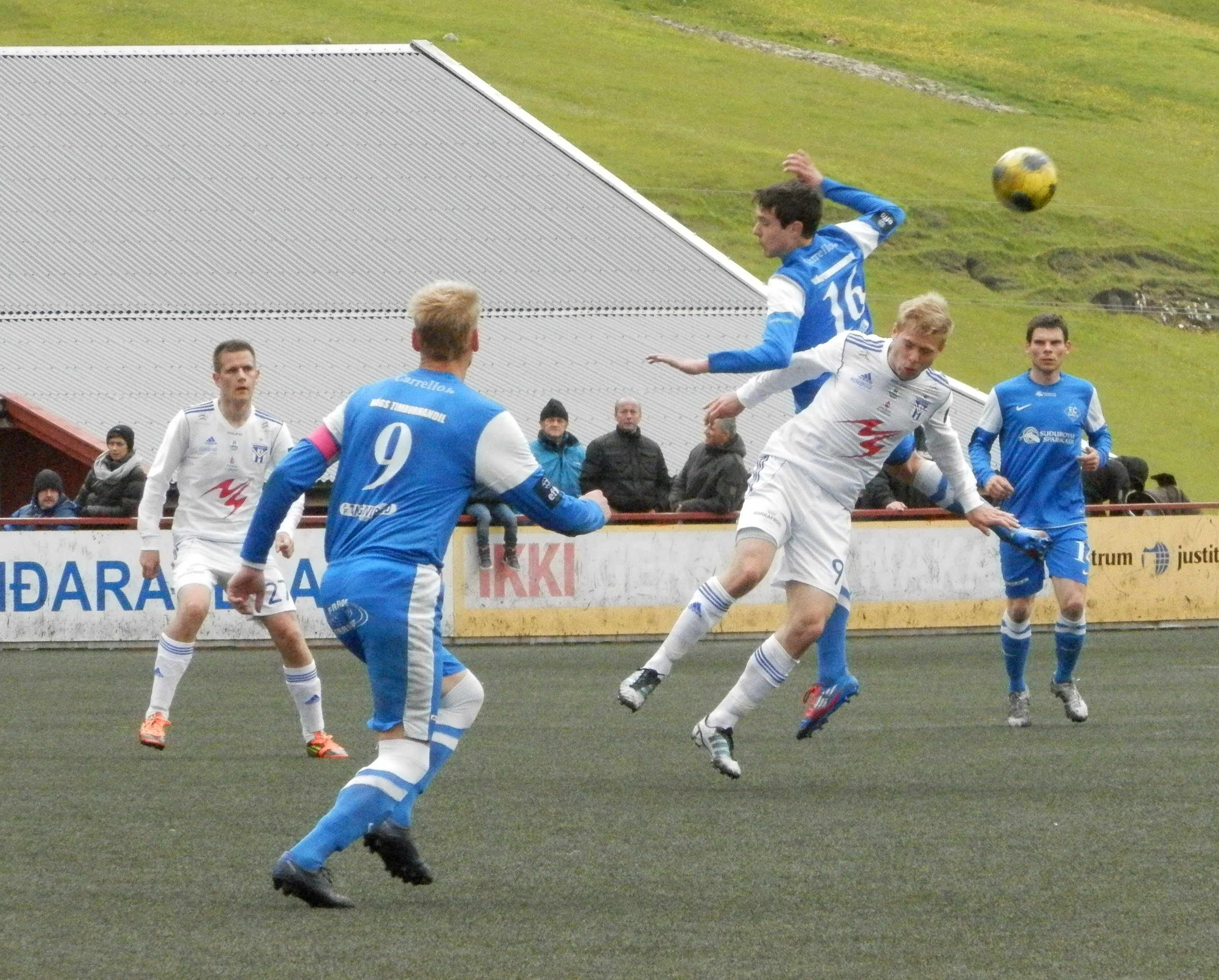 Football match (soccer) in the men's best division in the Faroe Islands between FC Suðuroy and KÍ Klaksvík. KÍ won this match 4-1. The match was played in Vágur. Føroyskt: Fótbóltsdystur í Effodeildini 30. juni 2012 millum FC Suðuroy og KÍ. KÍ vann dystin 4-1. Dysturin varð leiktur á Eiðinum í Vági.